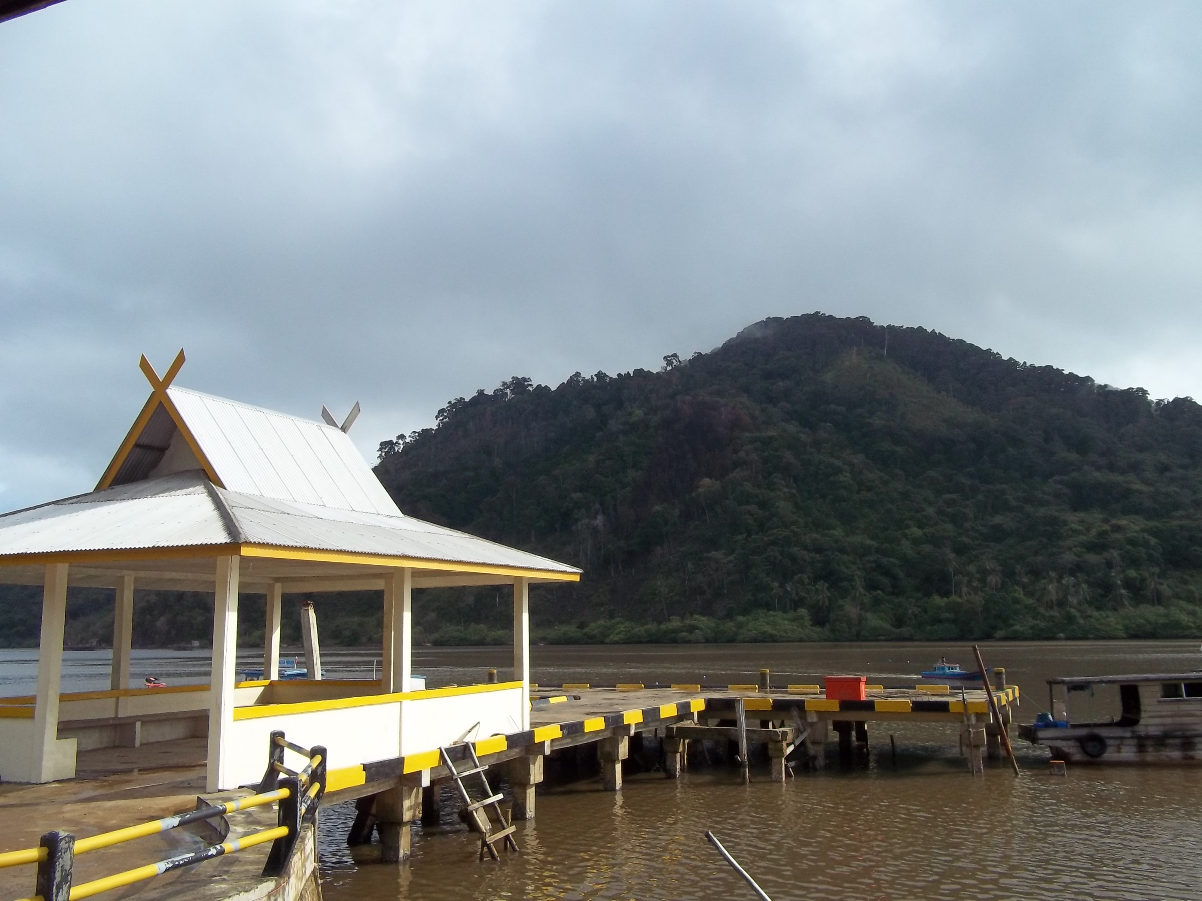 A harbor in Kuala Maras, East Jemaja, Anambas Islands, Riau Islands Province, Indonesia